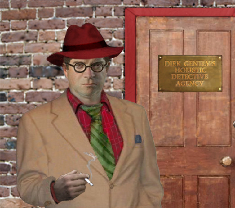 Illustration of Dirk Gently, standing outside his office and showing the brass plaque on the door